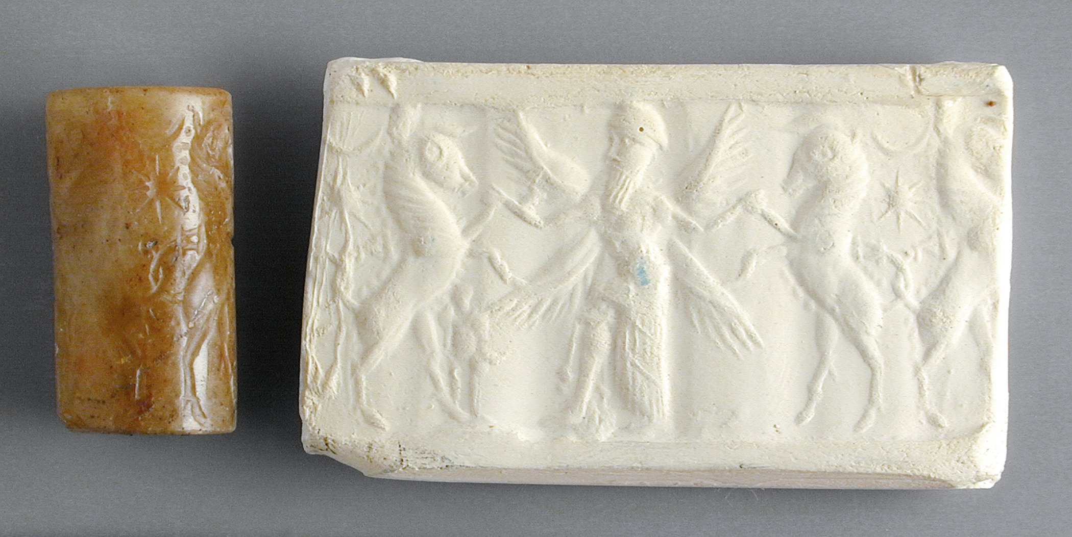 Mesopotamia, 7th century B.C. Tools and Equipment; seals Carnelian The Phil Berg Collection (M.71.73.11b) Art of the Ancient Near East